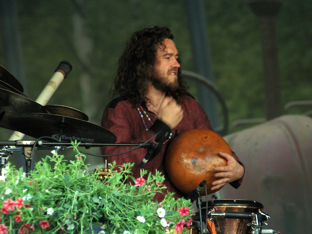 Teho Majamäki playing on a RinneRadio gig in 2013.